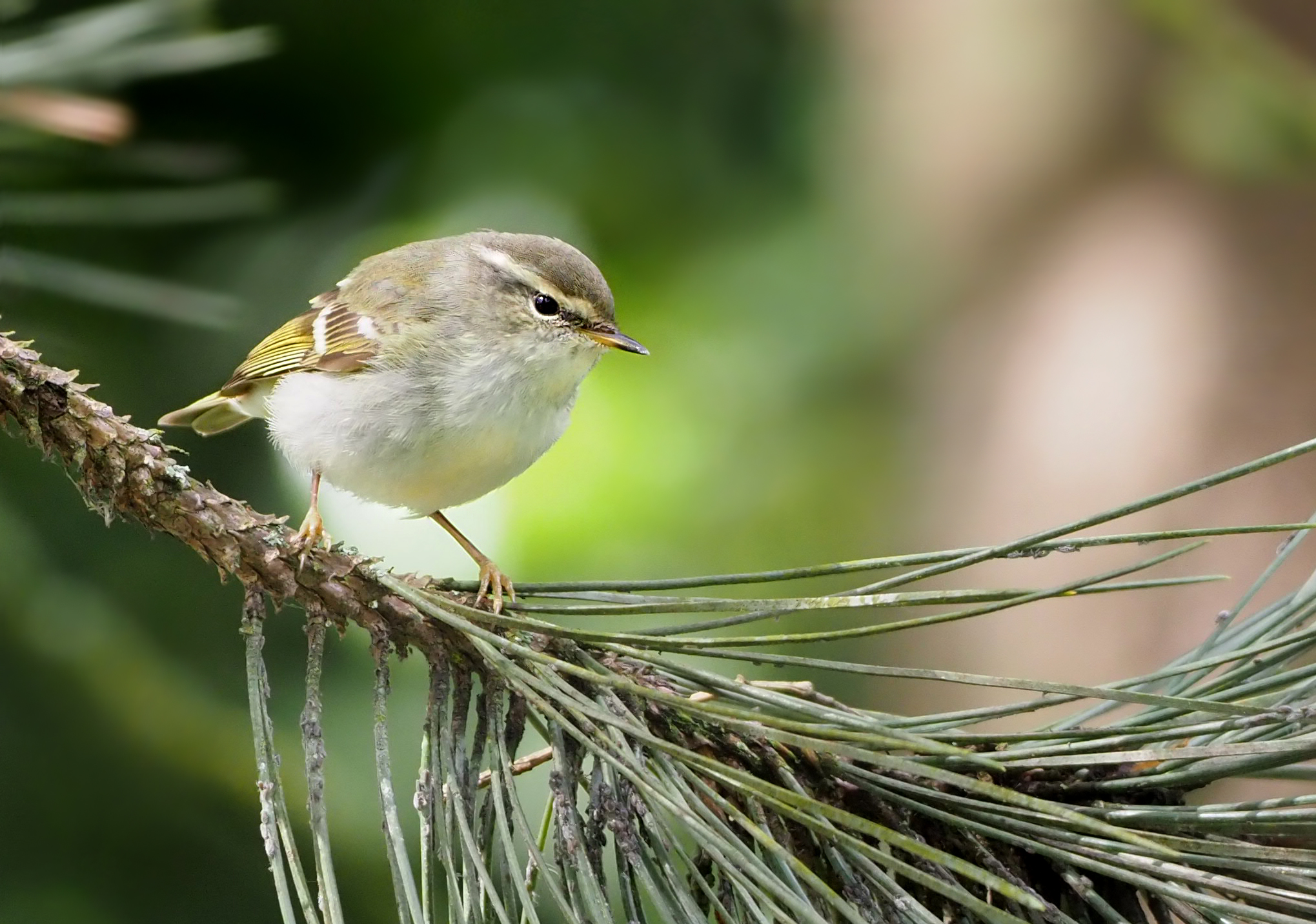 Yellow-browed warbler (Phylloscopus inornatus), Parc du Slot, Woluwé-St.-Lambert, Brussels